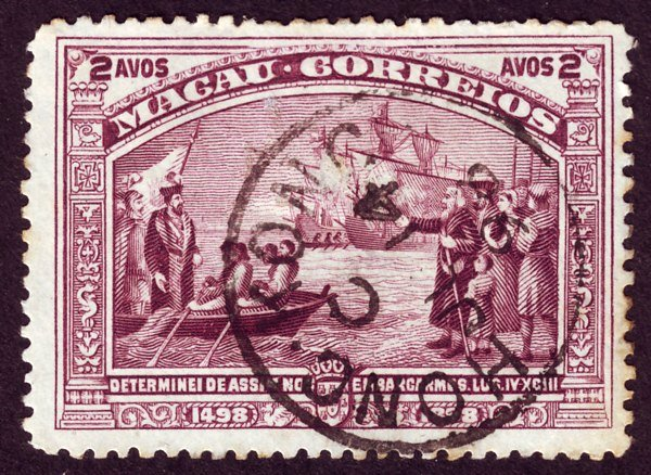 1898 stamp of Macau cancelled in Hong Kong. 400th anniversary of Vasco da Gama’s discovery of the route to India.